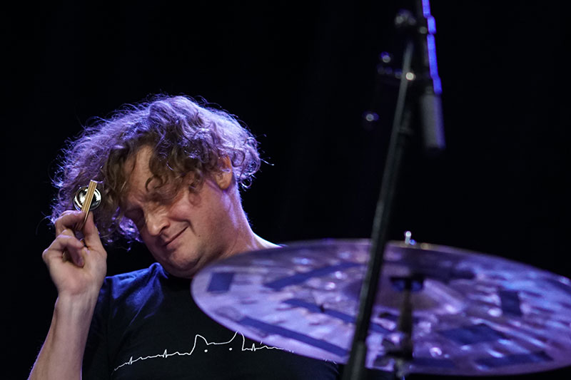 Jim Black in Aarhus, Denmark 2018. Performing with Hilmar Jensson (g) and Trevor Dunn (d)